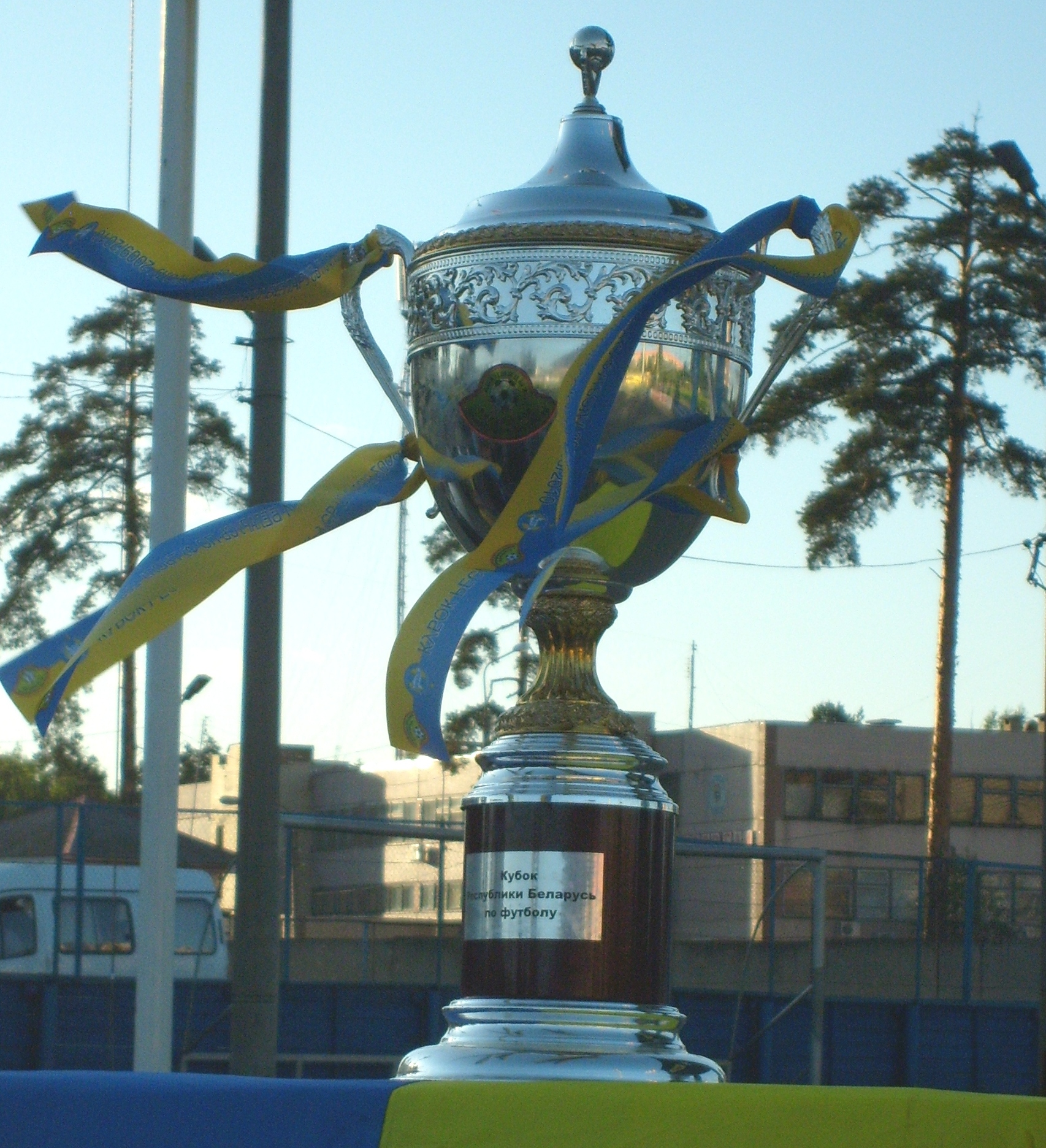 Belarus football cup